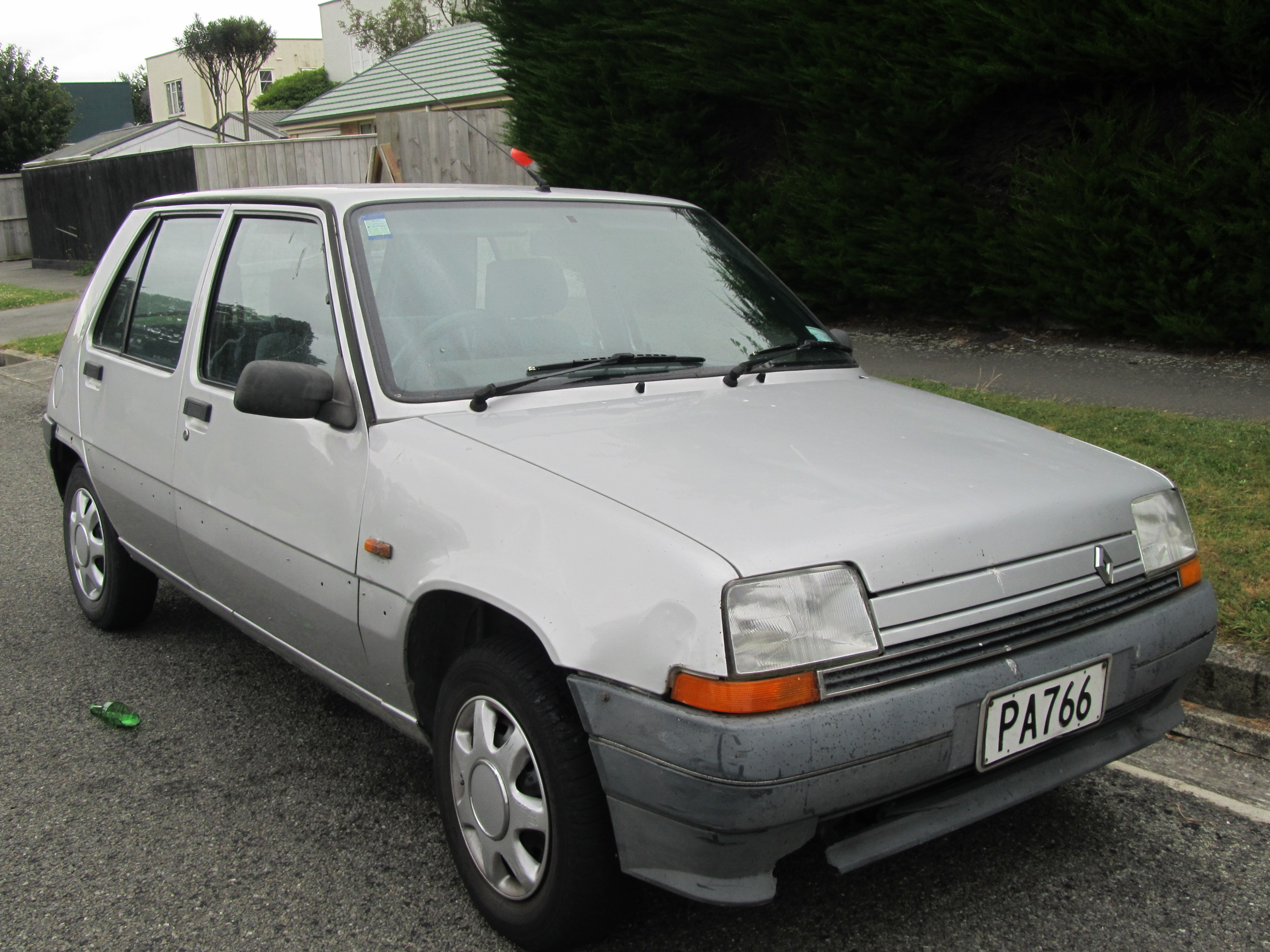 PA766 A bit battered, but solid, this is the first 5 I have seen in the wild. The late MkII 5s were the only ones sold in NZ, and due to high import tariffs on cars imported from overseas built-up, they were fairly expensive as well. Renault did well to modernise the 5's looks for the MkII - by 1990 when this one was made, the 5 was an 18-year-old design! This one was spotted in an incredibly rough area of Christchurch - glad I was travelling in a car and not on foot or bike!